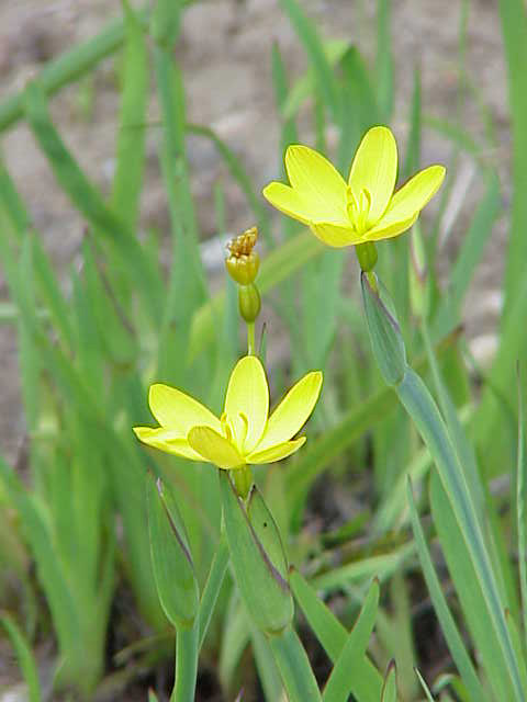 Name Sisyrinchium californicum Family Iridaceae Image no. 5 Permission granted to use under GFDL by Kurt Stueber